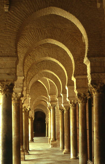 Great Mosque of Kairouan